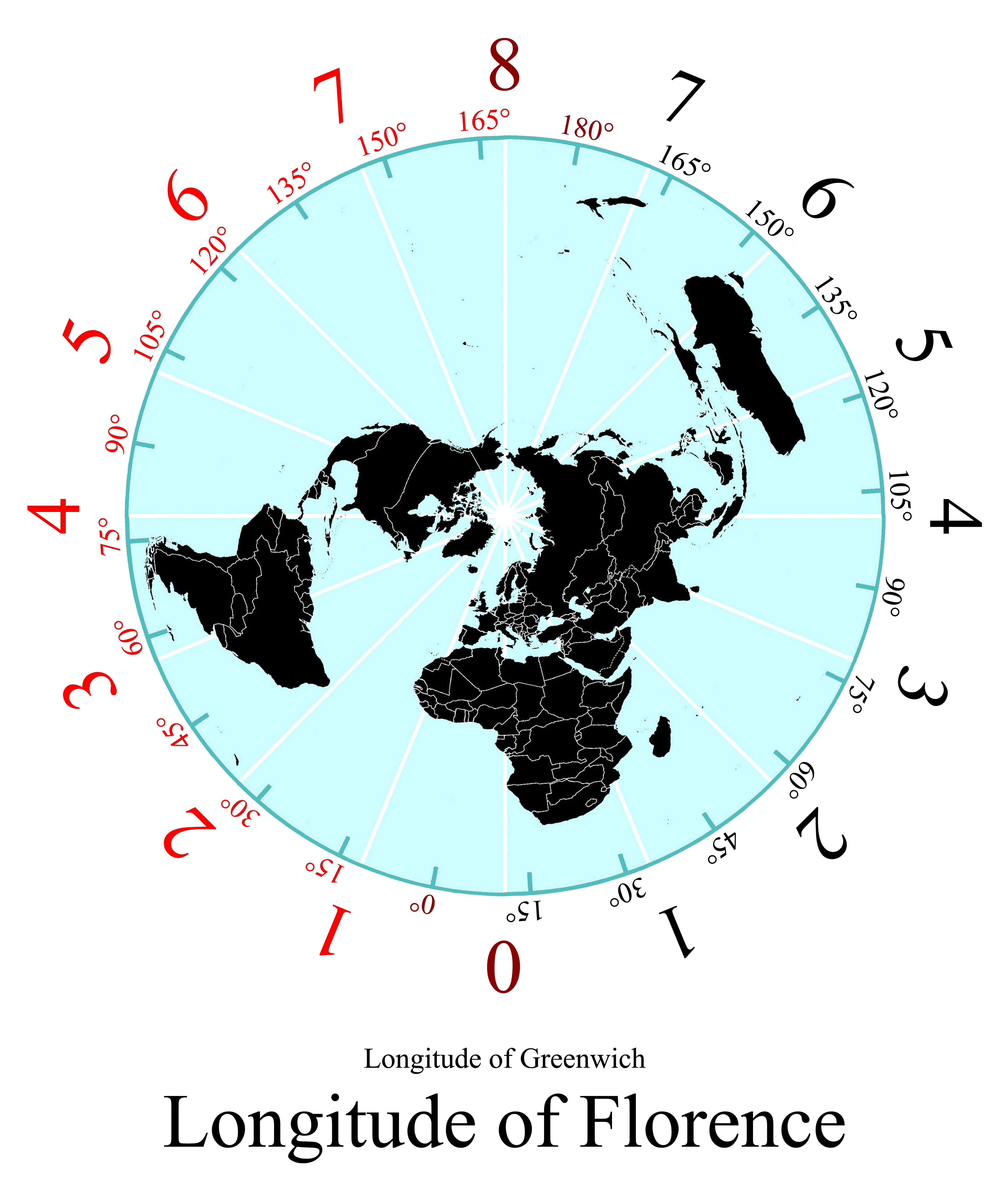 The hexadecimal geo coordinates east and west of Florence, matching hexadecimal time. The local hexadecimal time of any place is FMT + the hexadecimal longitude of this place. E.g. the local time of Greenwich is FMT - 0,08: If it is ,8000 (noon) in Florence, it´s ,8000 - ,0800 = ,7800 (a quarter past eleven) in Greenwich. (The fat numbers are hexadecimal: 0,8 = 1/2 and 0,08 = 1/32)